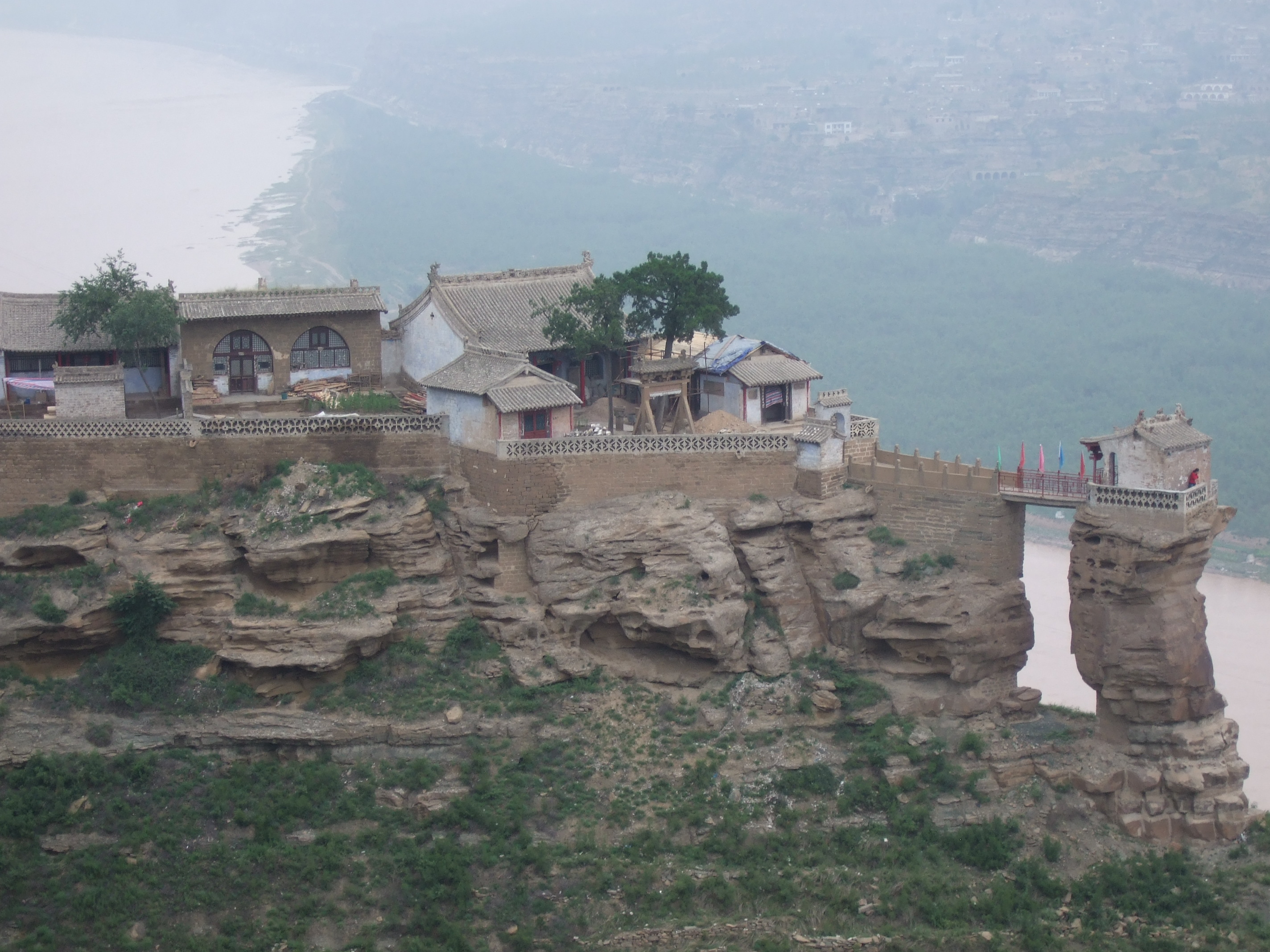 with a cool temple-on-a-rock-spire. we're still in jia xian. Jia County, Yulin Prefecture, Shaanxi, China